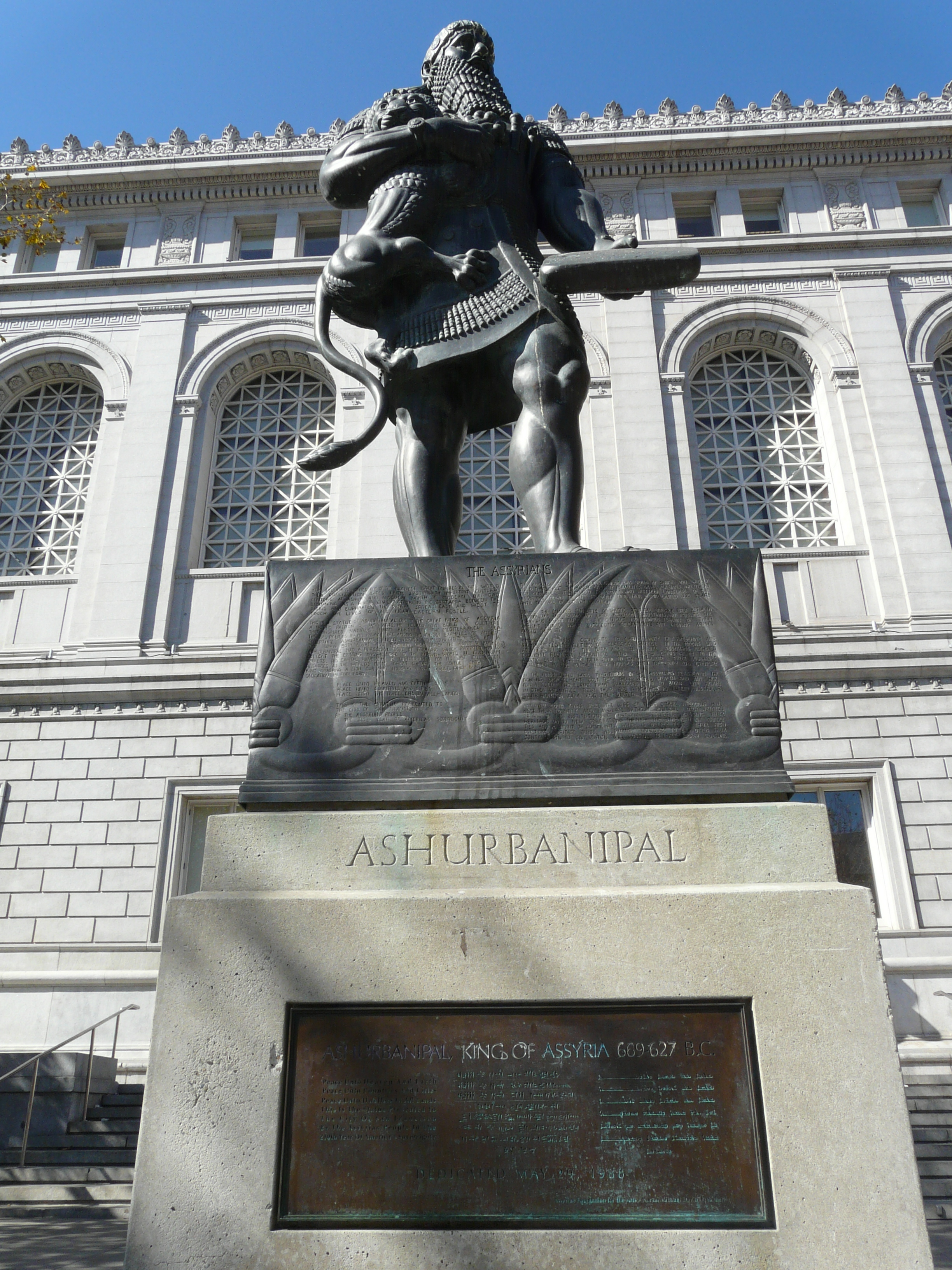 Statue Of Ashurburnipal; San Francisco Civic Center, San Francisco